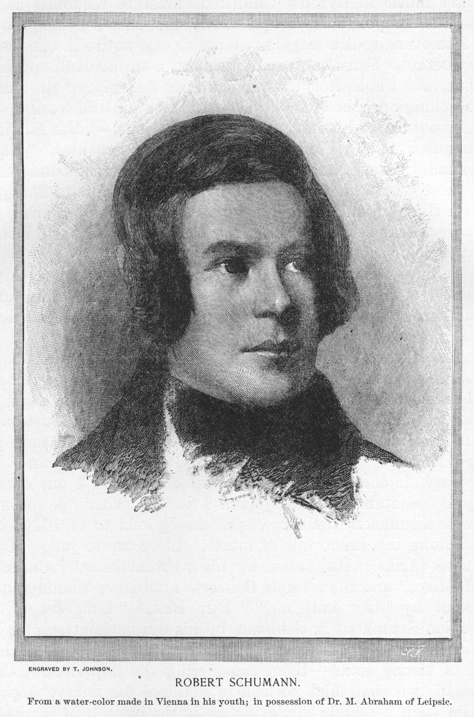 Robert Schumann